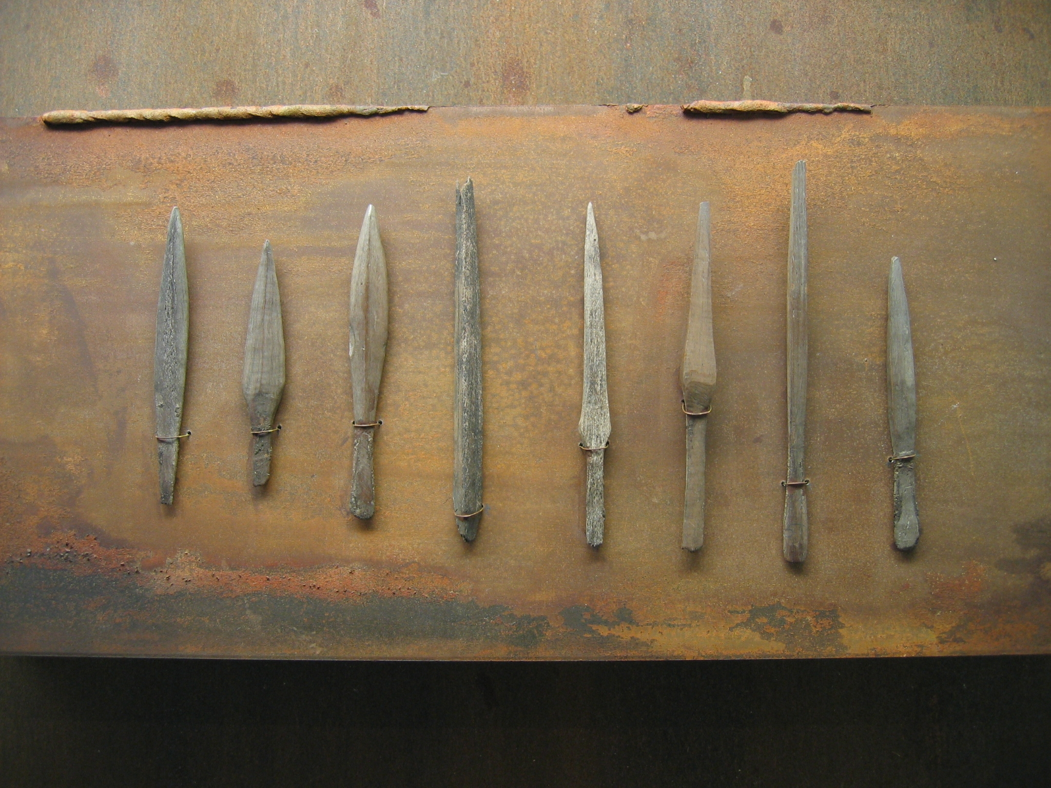 Arrowheads made of bones and antler found in the Nydam_Mose, dated 3td to 5th centruy AD.